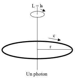 Spin of the photon